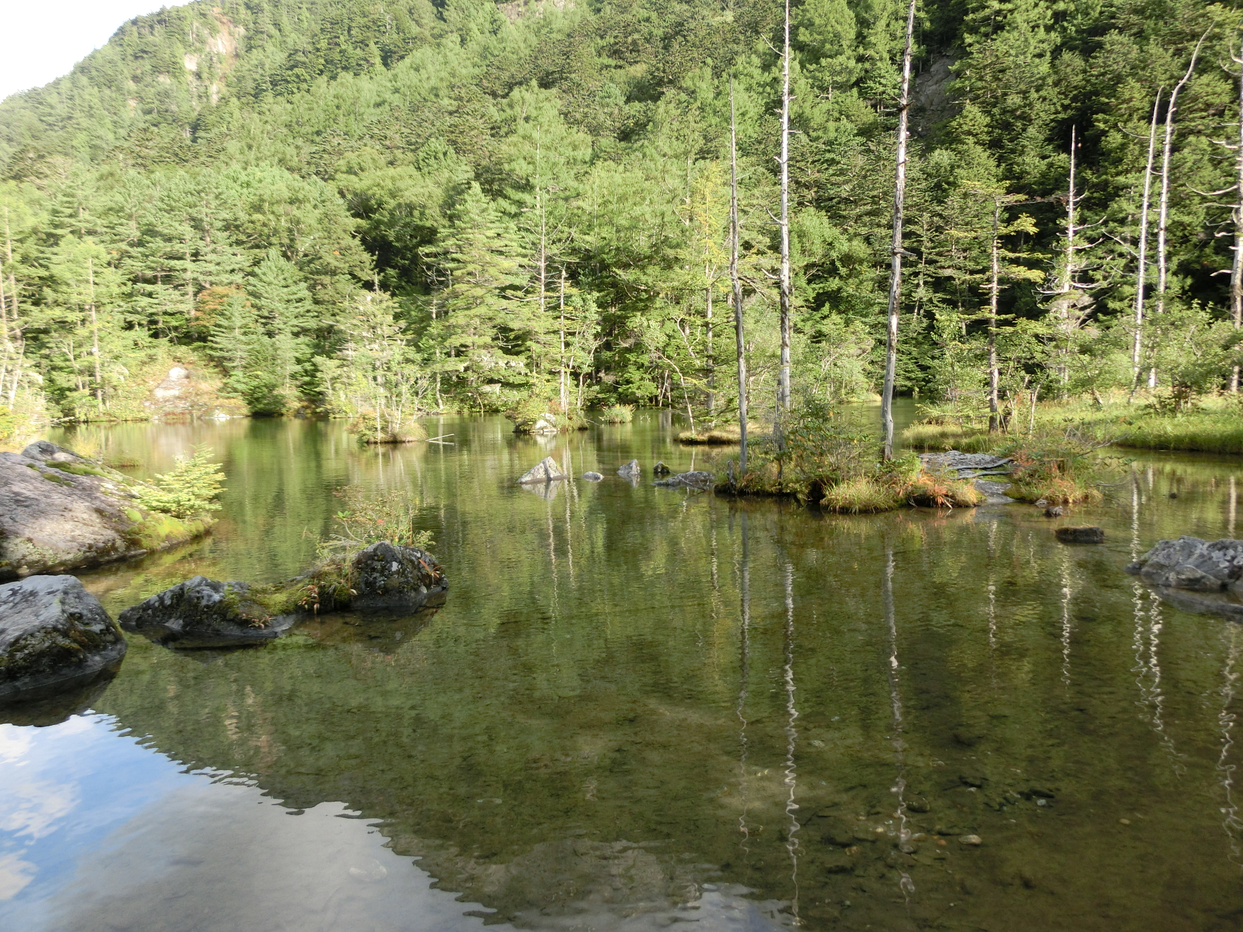 Myojin Pond Nino-ike